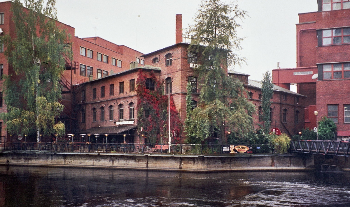 A part of the Kehräsaari business and shopping/boutique center in central Tampere, Finland. The building in the middle of the photo was designed by architect Lambert Pettersson and built in 1897 as a part of the now defunct wool spinning and dyeing mill founded by H. Liljeroos.